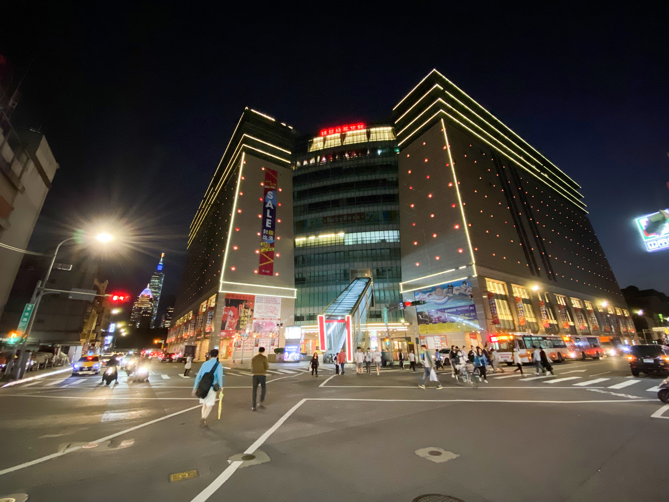 Living Mall Exterior